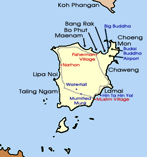 Map over Koh Samui, with known tourist beaches, Ringroad and few attracktions. (Based on map Tambon 8404.png by Ahoerstemeier)